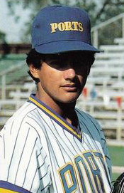 Professional baseball player Angel Miranda